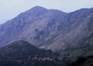 El Mazuco and the heights of Llabres